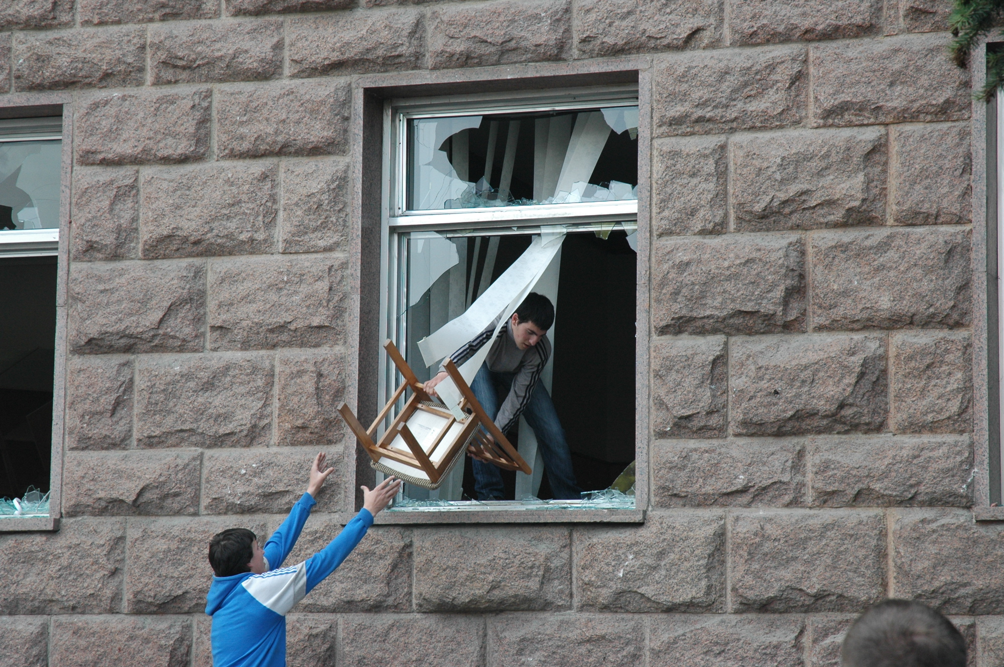 Protest riot in Chisinau after the 2009 Parliamentary Elections